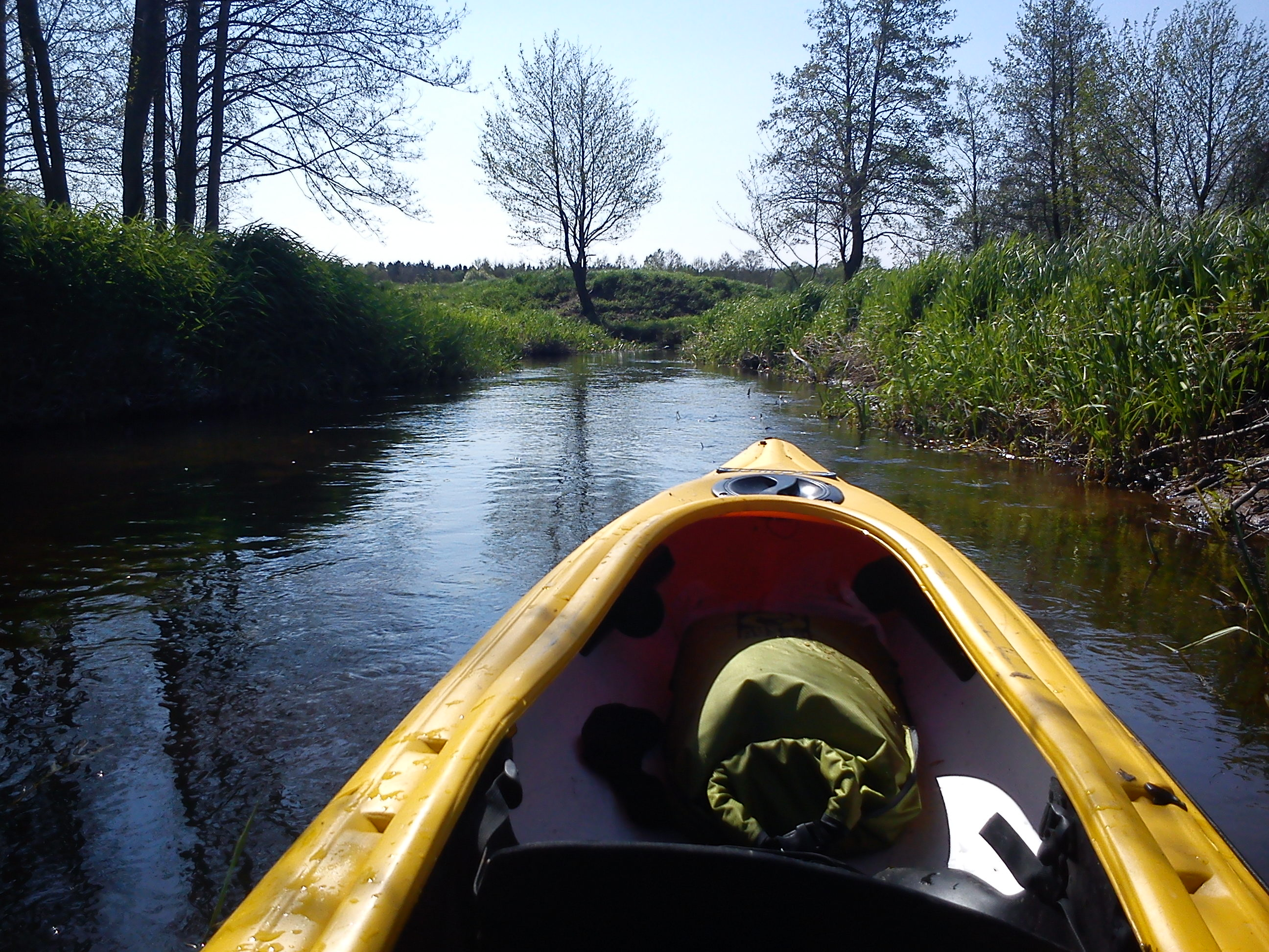 Flinta river.